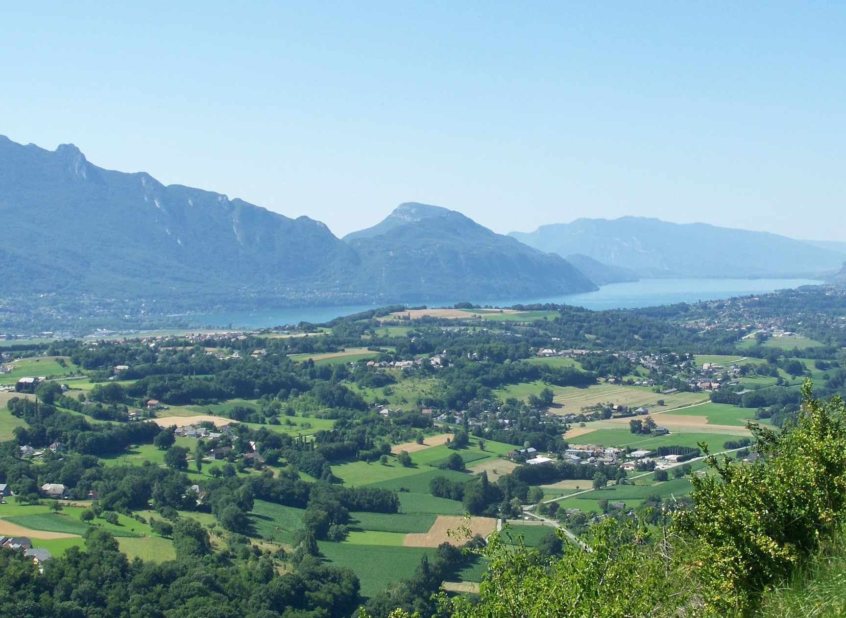 Panoramic sight of the French commune of Sonnaz, near Chambéry in Savoie. The main hamlet and church are in the center. At the background can be the lac du Bourget lake.